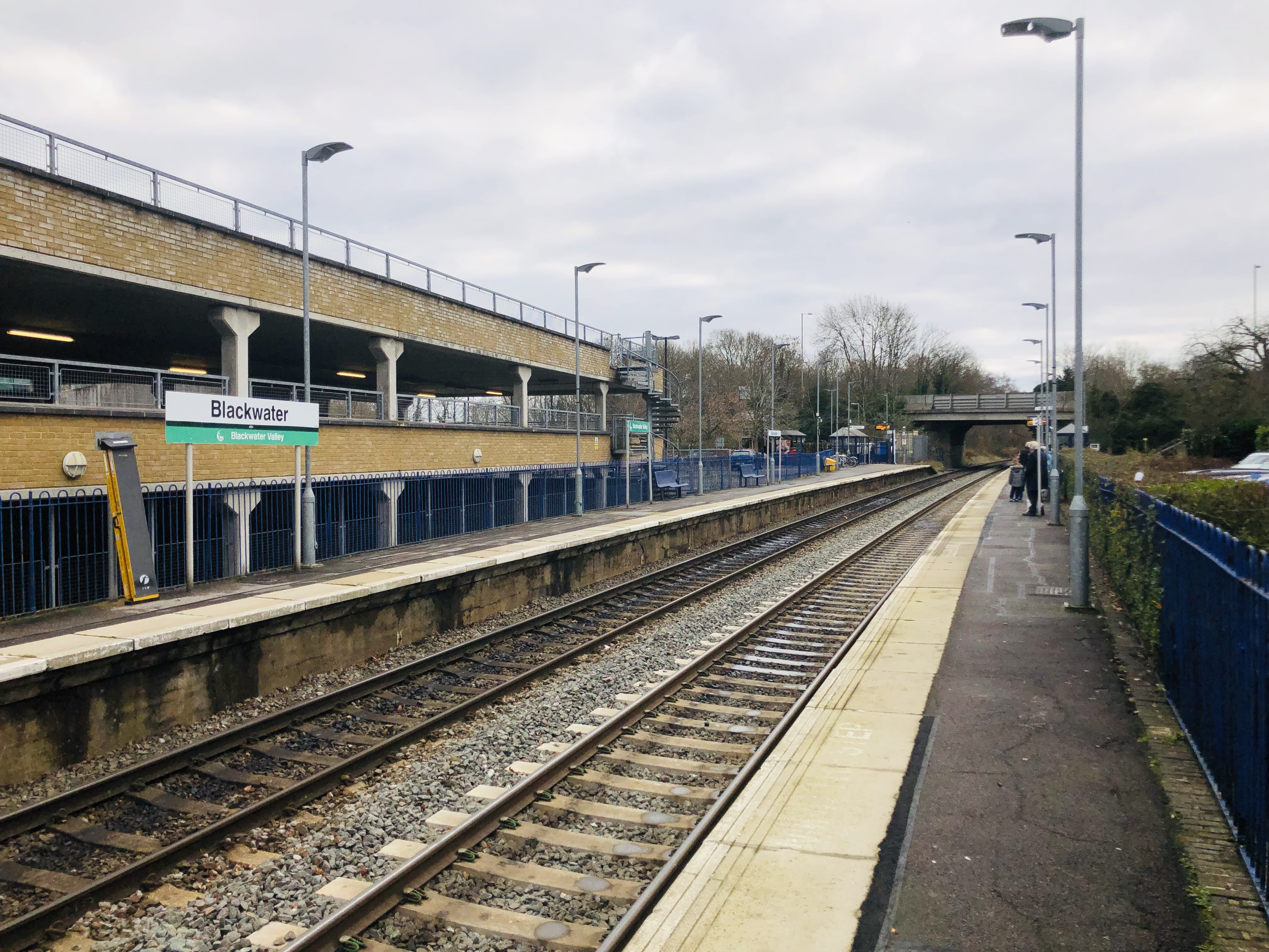 The platforms at Blackwater railway station, looking southeast towards Guildford and Redhill. Taken from the northwestern end of the Reading-bound platform 2.